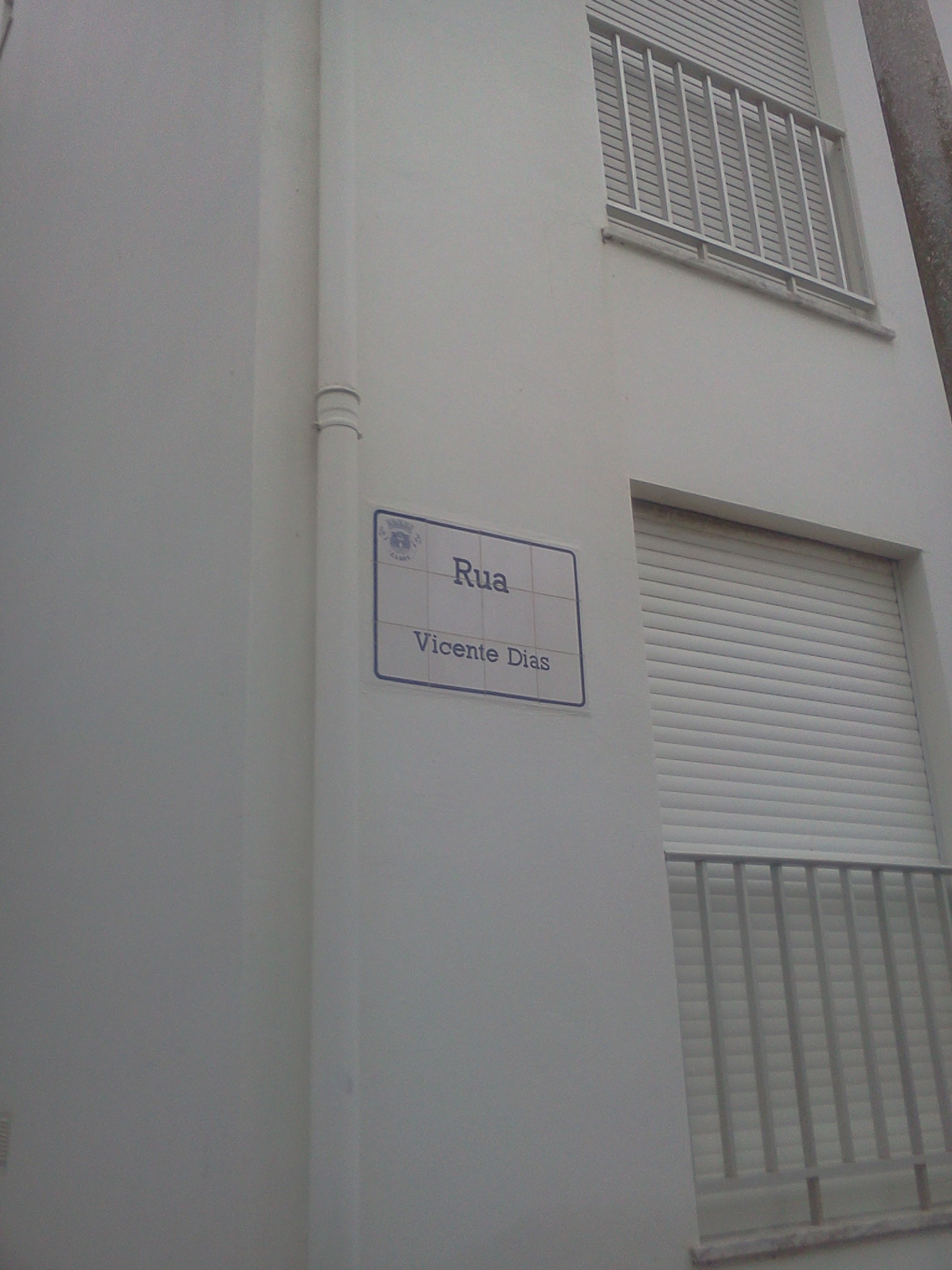 Street sign of Rua Vicente Dias, in the city of Lagos, in southern Portugal.